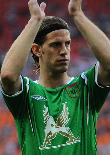 Argentine wing back Cristian Ansaldi